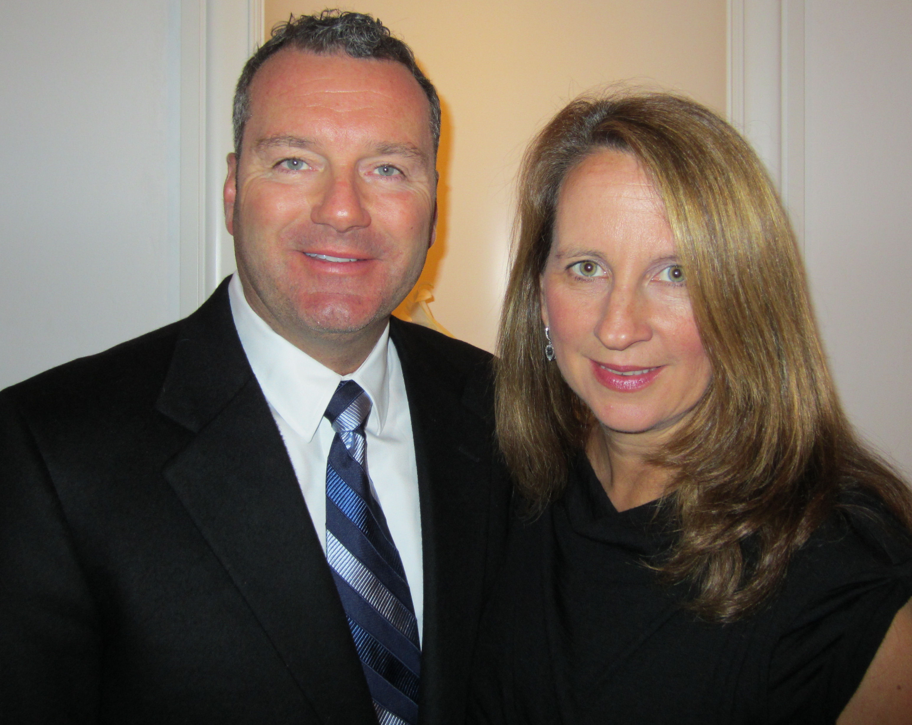 Tim Michels and Barbara Michels